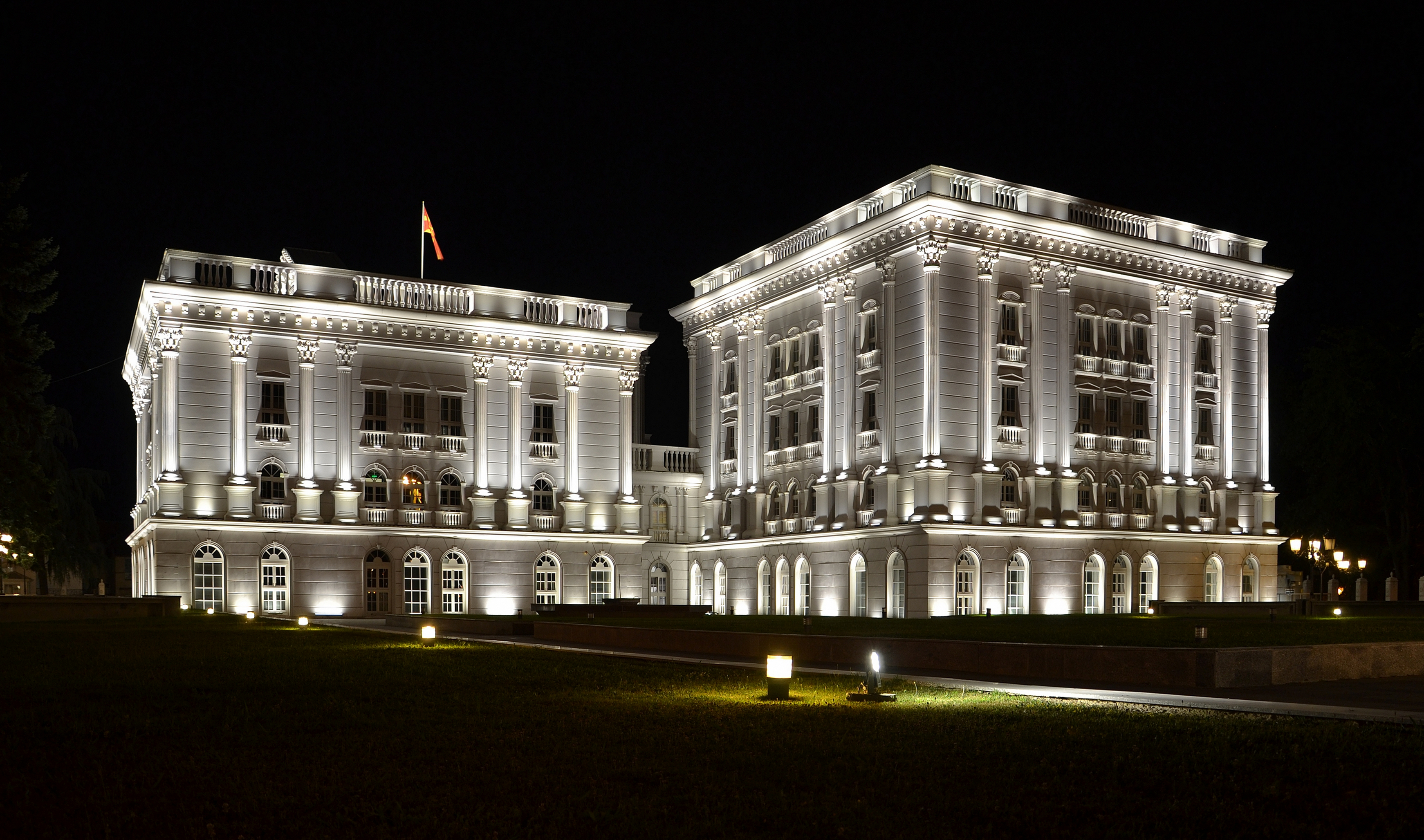 Government Headquarters in Skopje (Macedonia) by night